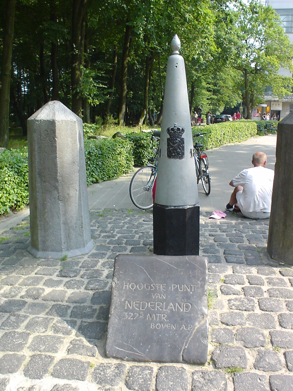 The Vaalserberg (Vaals hill), with 327.5 m above sea level the highest point of the Netherlands. Located close to Vaals, near the German city Aachen. Photo by User:Ahoerstemeier taken on July 16 2005